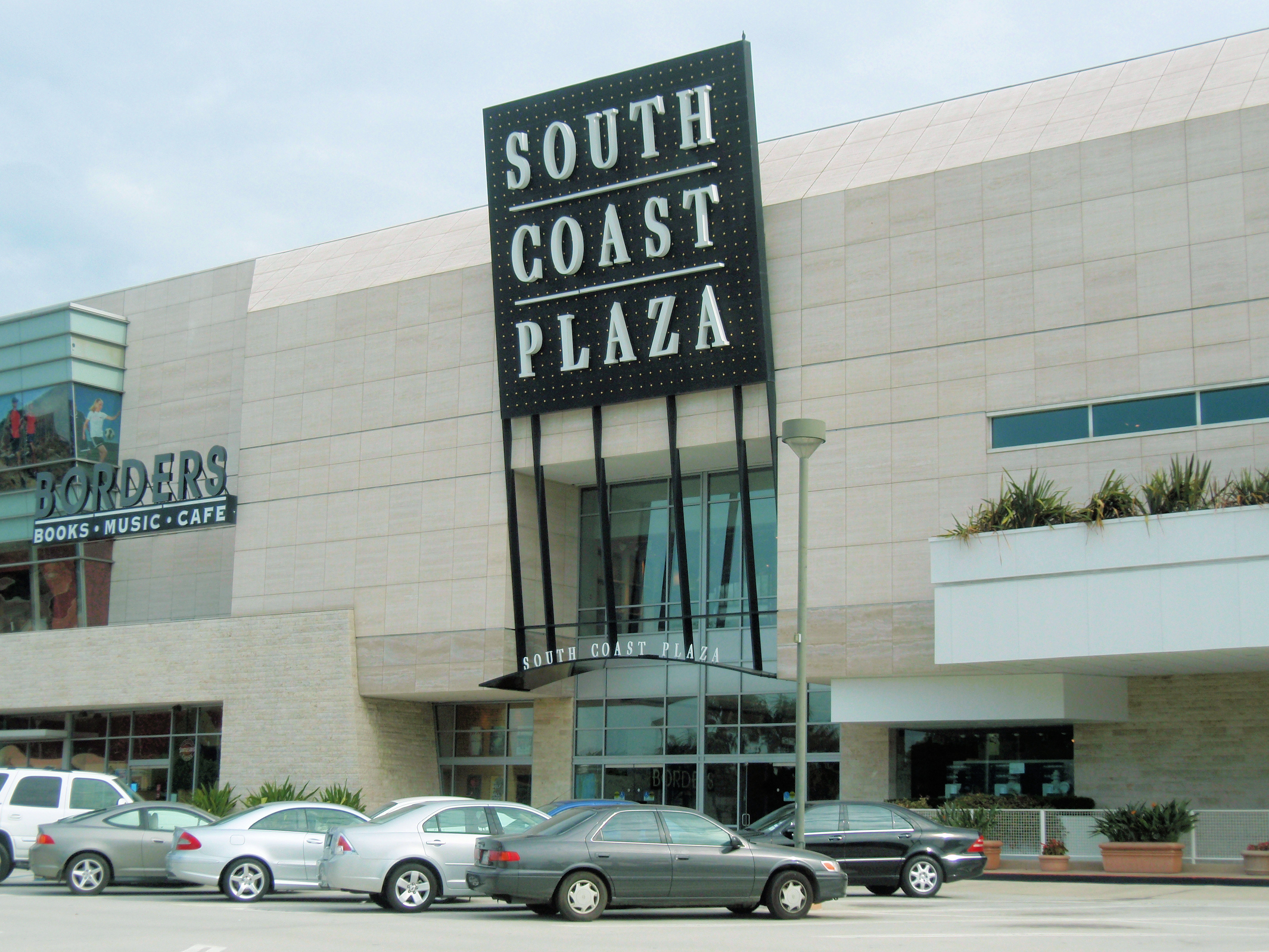 One of the entrances to the western end of South Coast Plaza in Costa Mesa.